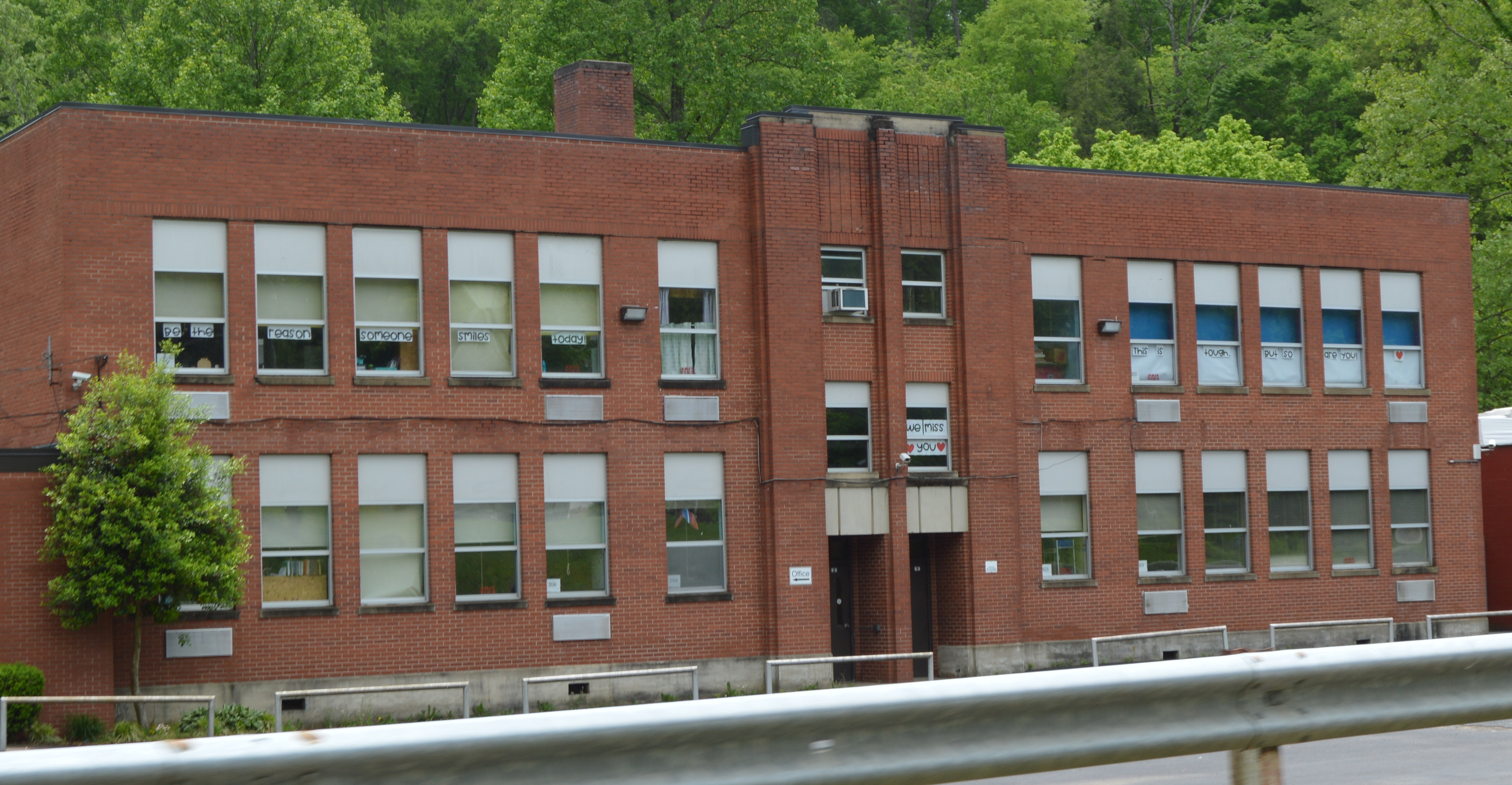 Front of East Lynn Elementary School, located on West Virginia Route 37 at East Lynn in Wayne County, West Virginia, United States.